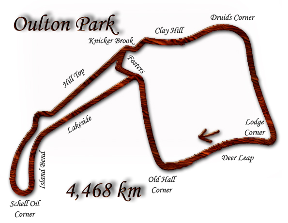 Diagram of the Circuit Outlon Park. Used for International Gold Cup 1954-1975